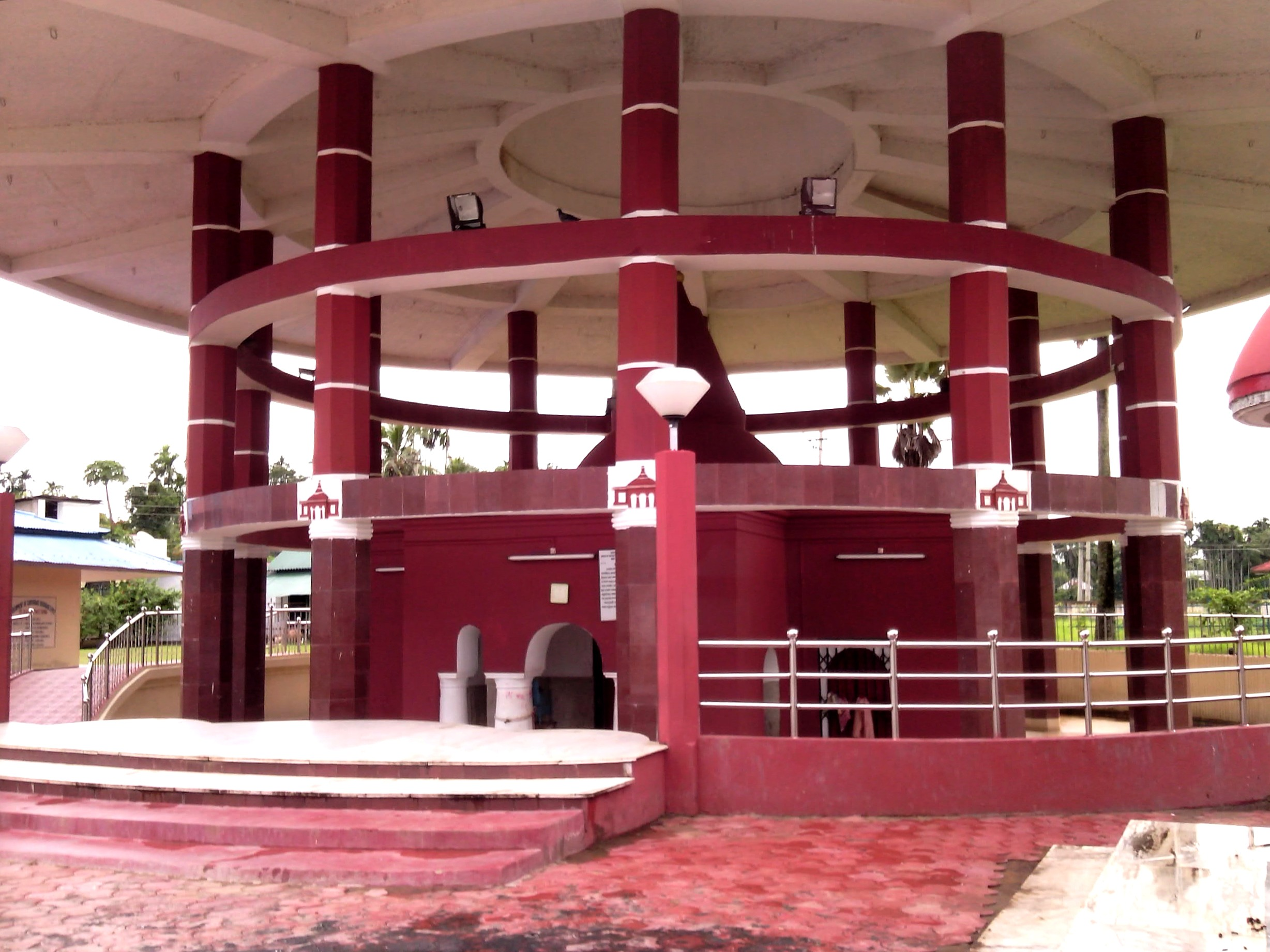 Temple of Chaturdasa Devata, Radha Kishorpur